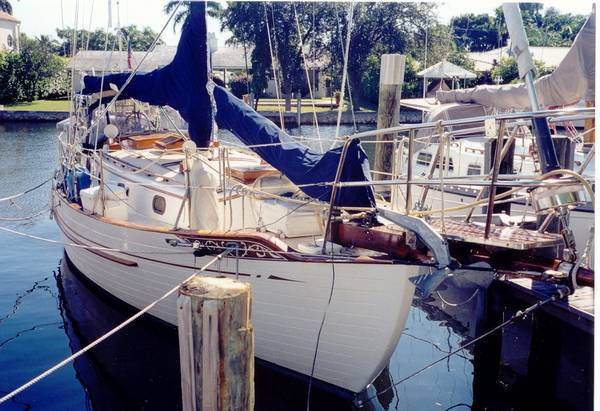 Photo of Tayana 37.